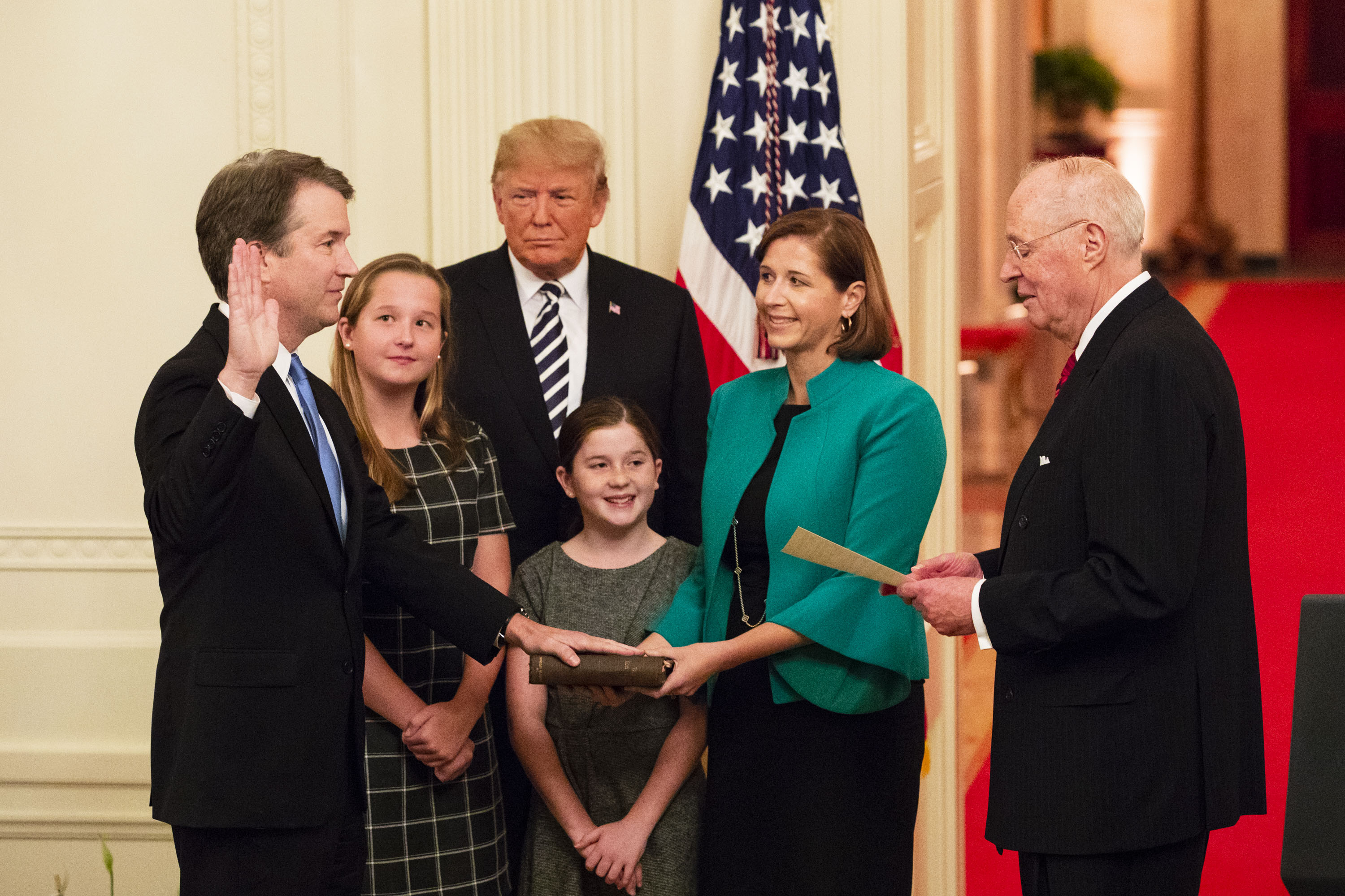 President Donald J. Trump looks on as Anthony M. Kennedy, retired Associate Justice of the Supreme Court of the United States, swears in Judge Brett M. Kavanaugh to be the Supreme Court's 114th justice Monday, Oct. 8, 2018, in the East Room of the White House in Washington, D.C. Justice Kavanaugh is joined by his wife Ashley, holding the Bible, and their daughters Liza and Margaret. (Official White House Photo by Joyce N. Boghosian)